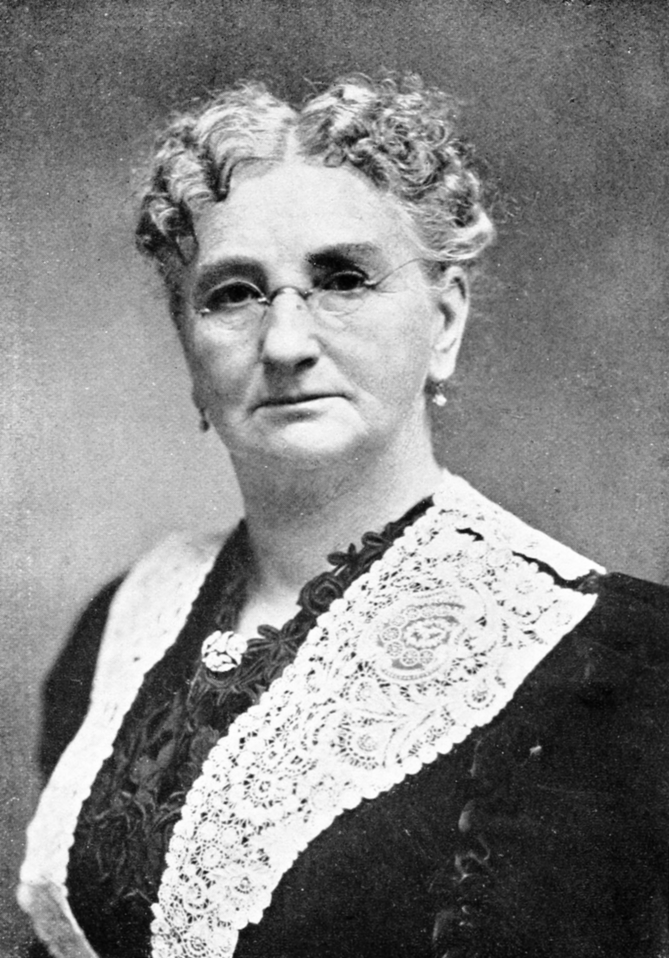 MRS. ANNA MARY LEWIS MANN Builder of Old People's Home — President of Women's Union and Children's Home